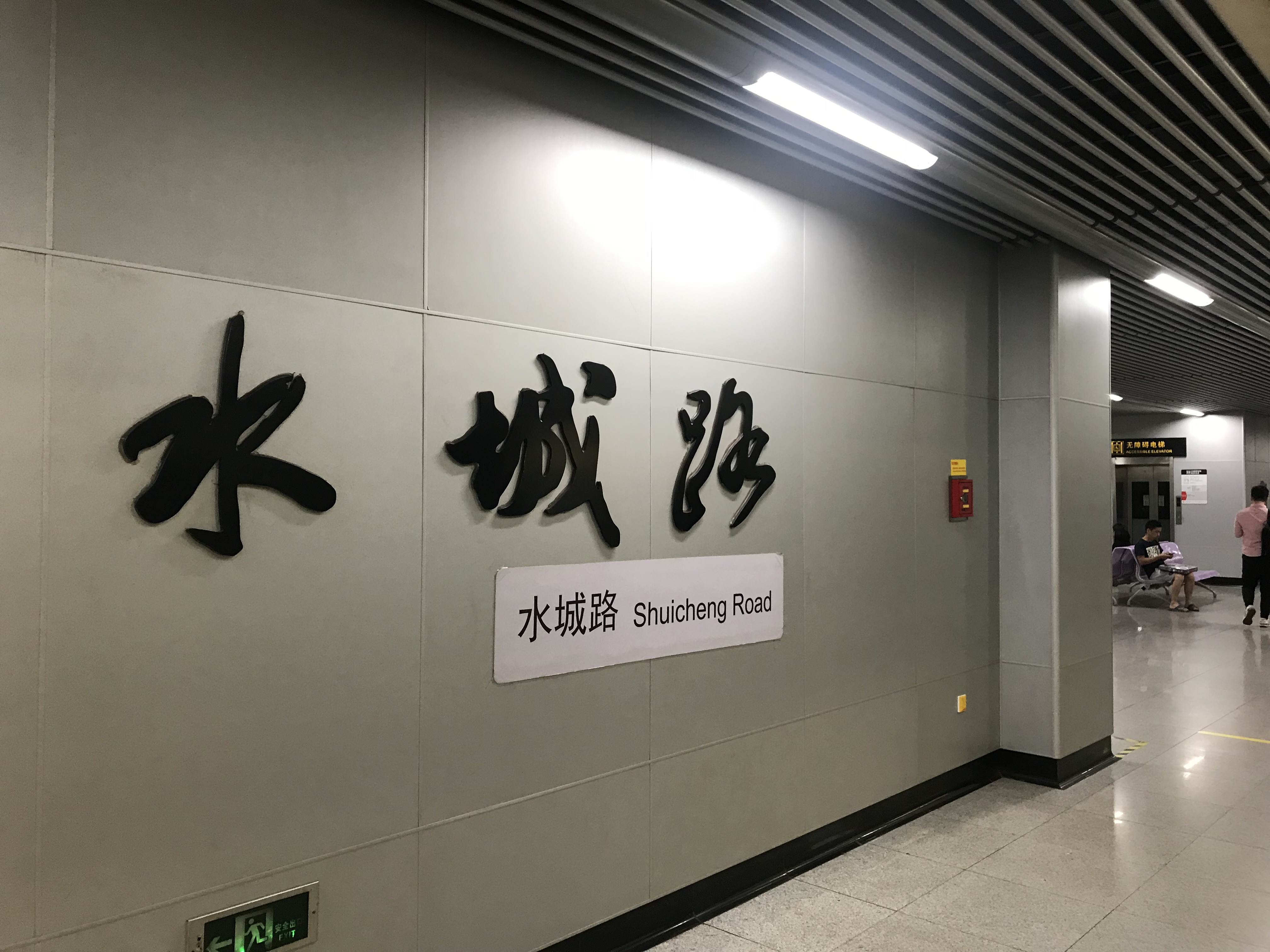 201806 Shuicheng Road Station